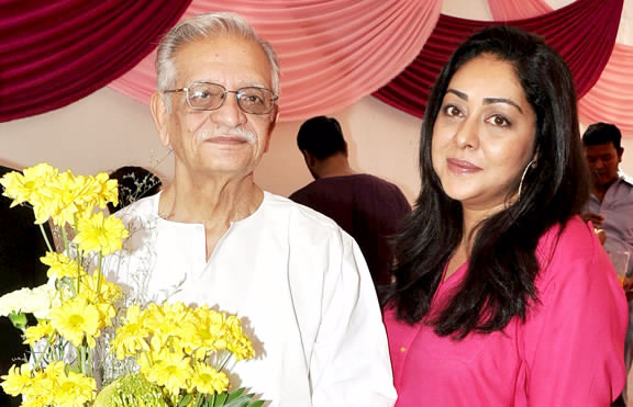 Gulzar with daughter Meghna Gulzar at the launch of Dr. Shrilata Trasi & Dr. Shefali Nerurkar's clinic La Piel